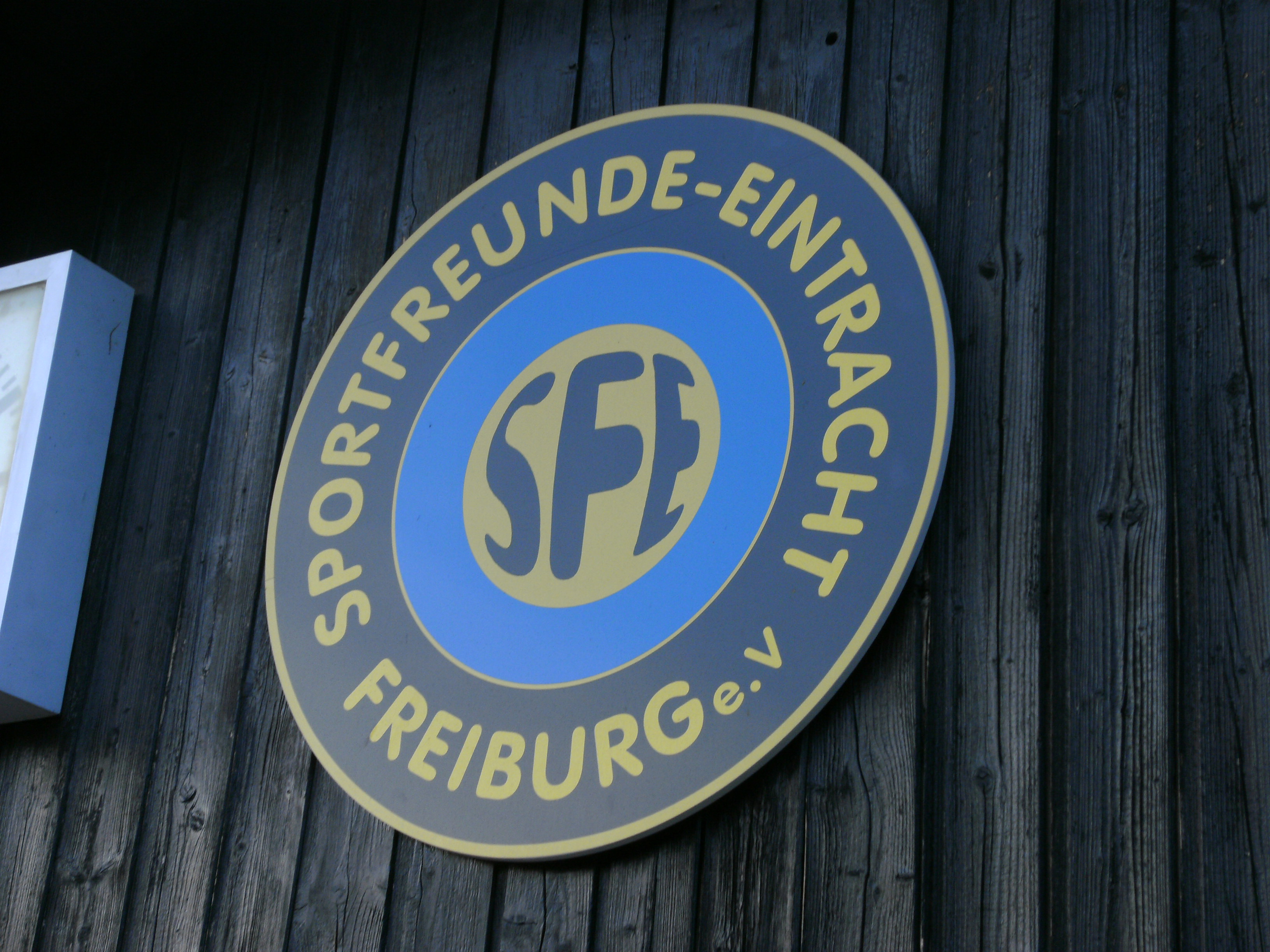 Logo of SF Eintracht Freiburg